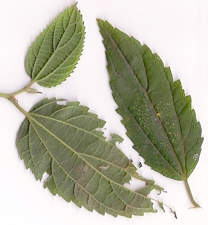 Trema tomentosa, seed from Eastwood, tree from Chatswood West, 7 metres tall